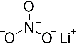 chemical structure of lithium nitrate